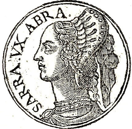 Sara was the wife of Abraham and the mother of Ishmaelas described in the Hebrew Bible and the Quran.